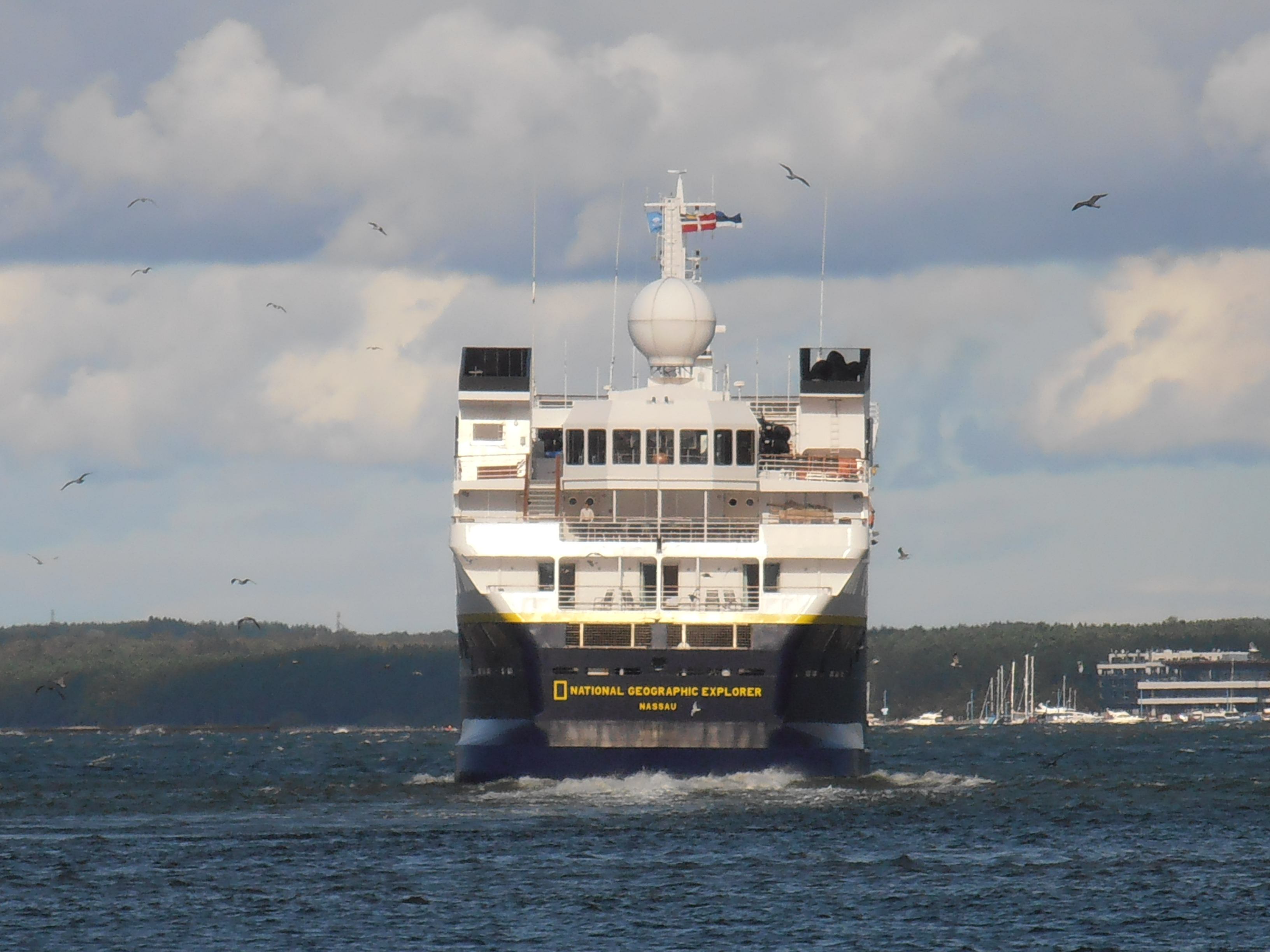 National Geographic Explorer Stern Tallinn 9 September 2012